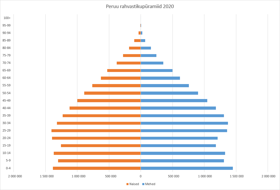 Peru population pyramid